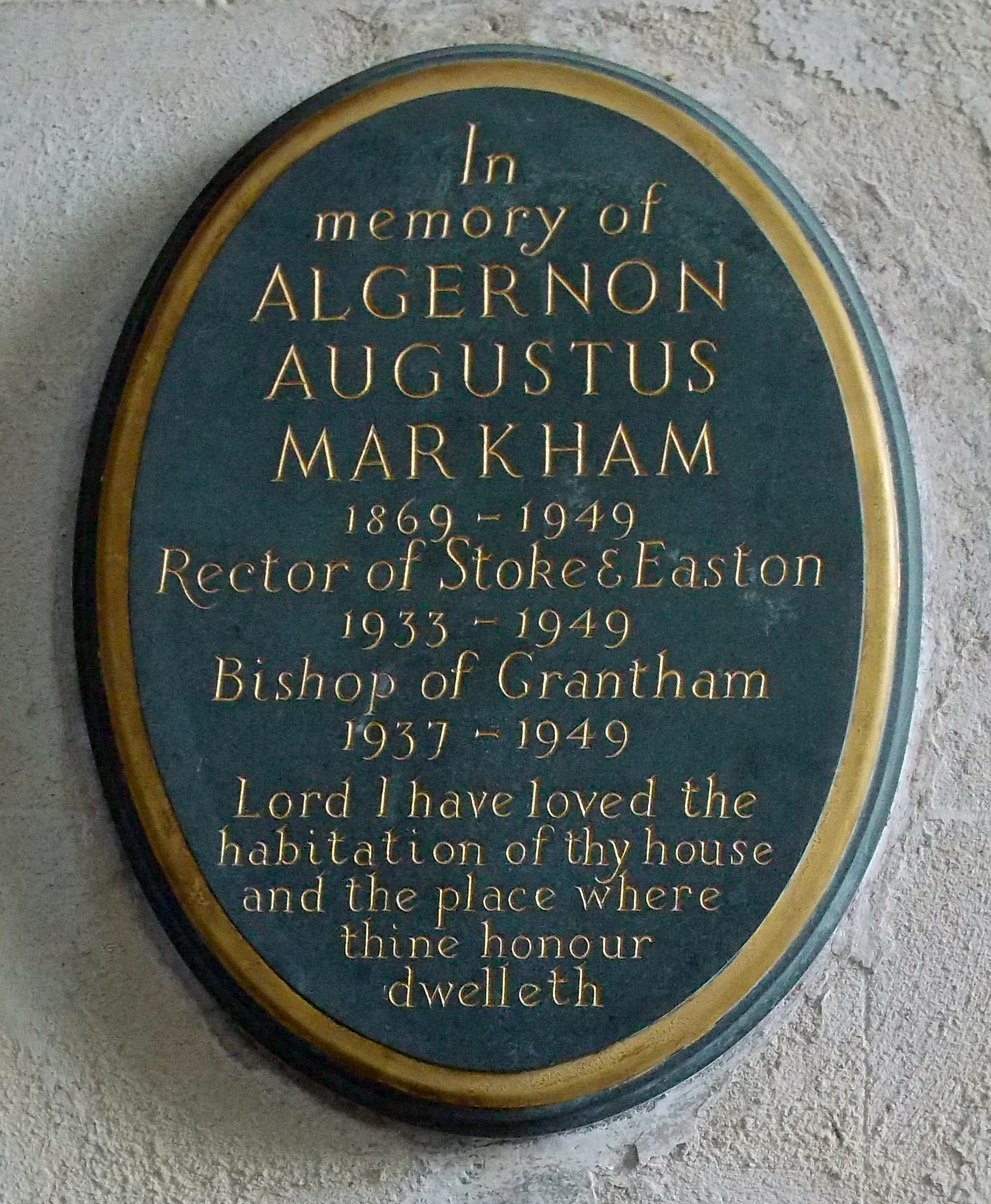 Stoke Rochford Ss Mary & Andrew, interior - south aisle south wall plaque to Algernon Augustus Markham, rector 1933–1939